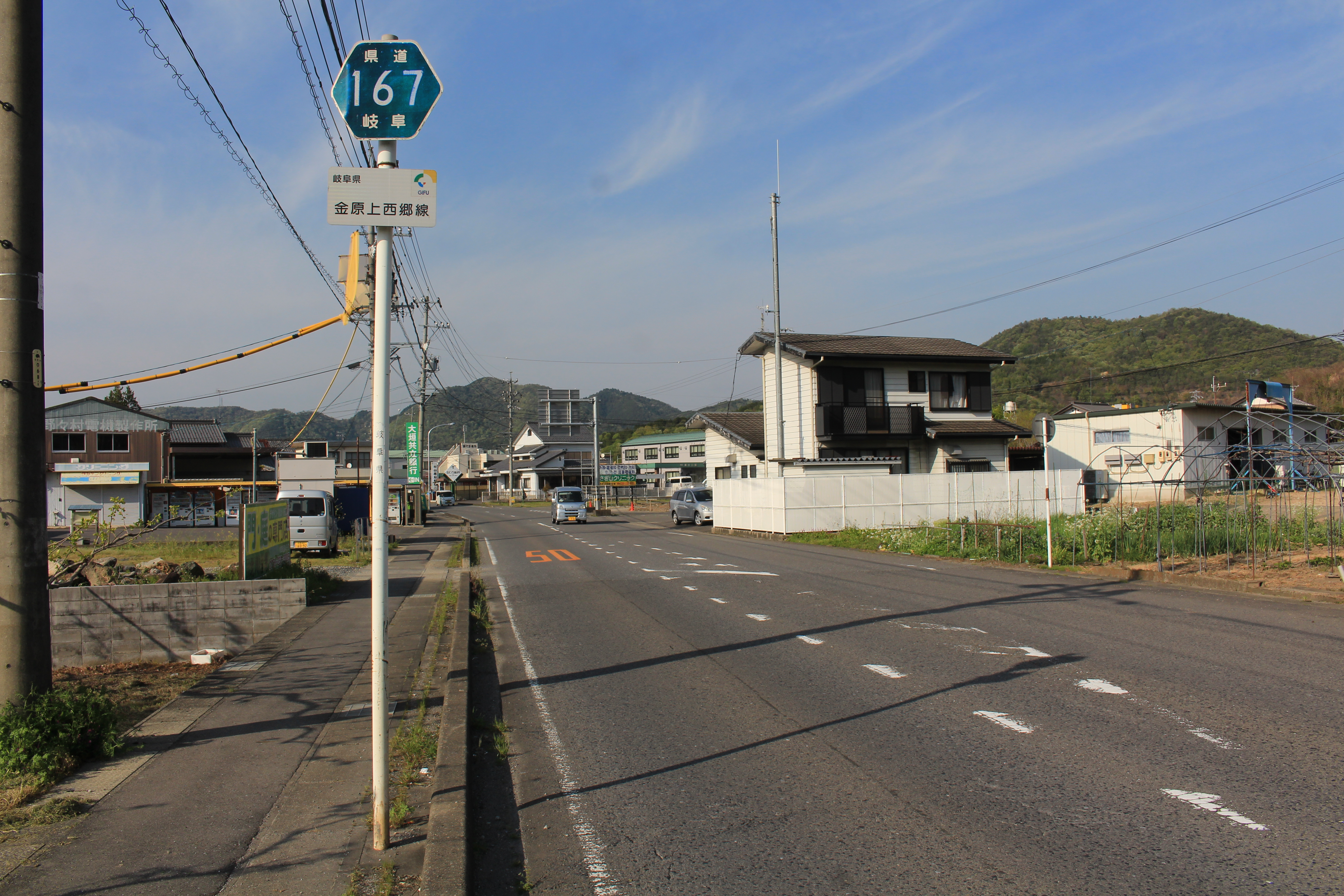 Gifu prefectural road route 167, in Gifu city, Gifu pefecture, Japan.